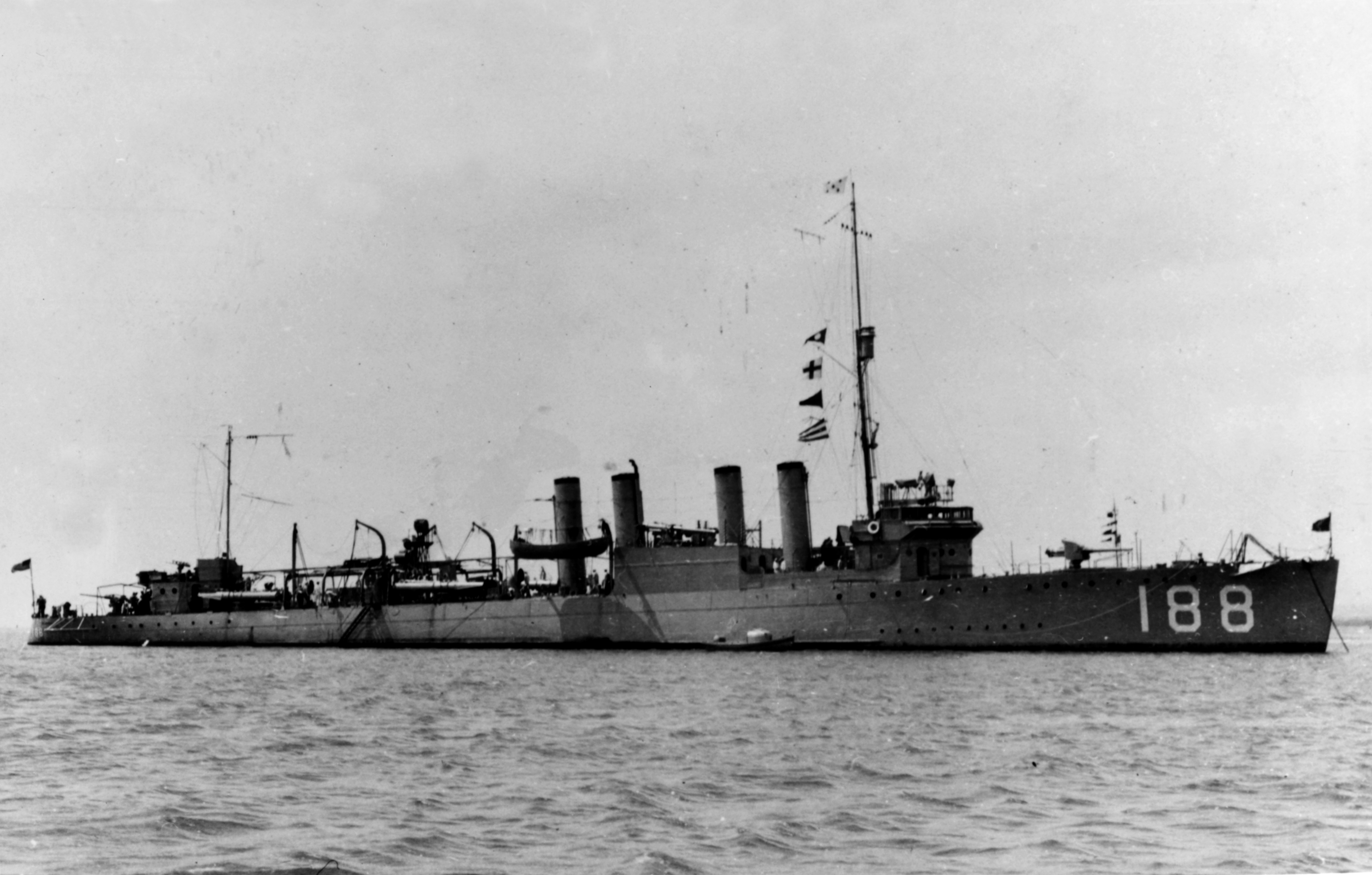 The U.S. Navy destroyer USS Goldsborough (DD-188) at anchor, circa in 1920.